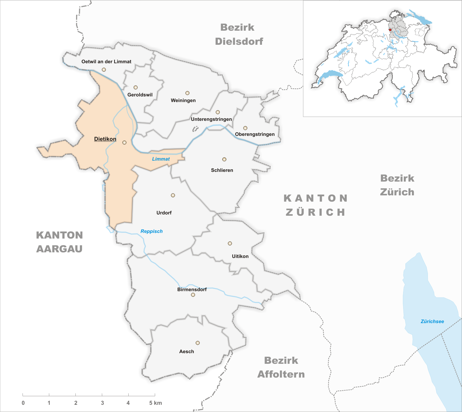 Municipality Dietikon